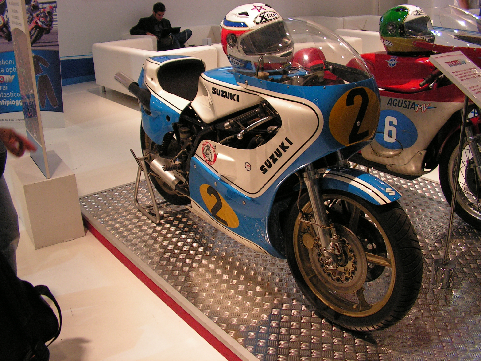 Suzuki 500 used by Randy Mamola during the 500 World Championship in 1981 - EICMA 2007, Milan (Italy)